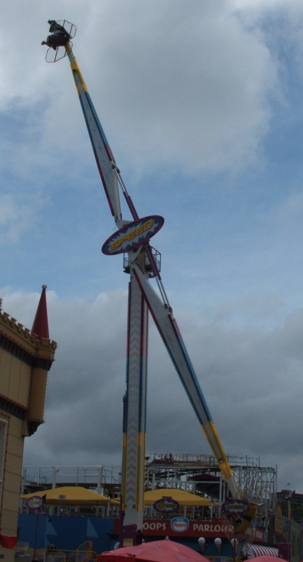 Photograph of a KMG Speed touring amusement ride in operation at Luna Park Sydney. Cropped and rotated from original photograph